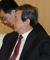 Cropped version of "File:Dr. Kituyi meets with H.E. Mr. Ma Kai, Vice Premier of China (9711604522).jpg" (UNCTAD Secretary-General Mukhisa Kituyi meets with H.E. Mr. Ma Kai, Vice Premier of China, at the 17th China International Fair for Investment and Trade, Xiamen, China)